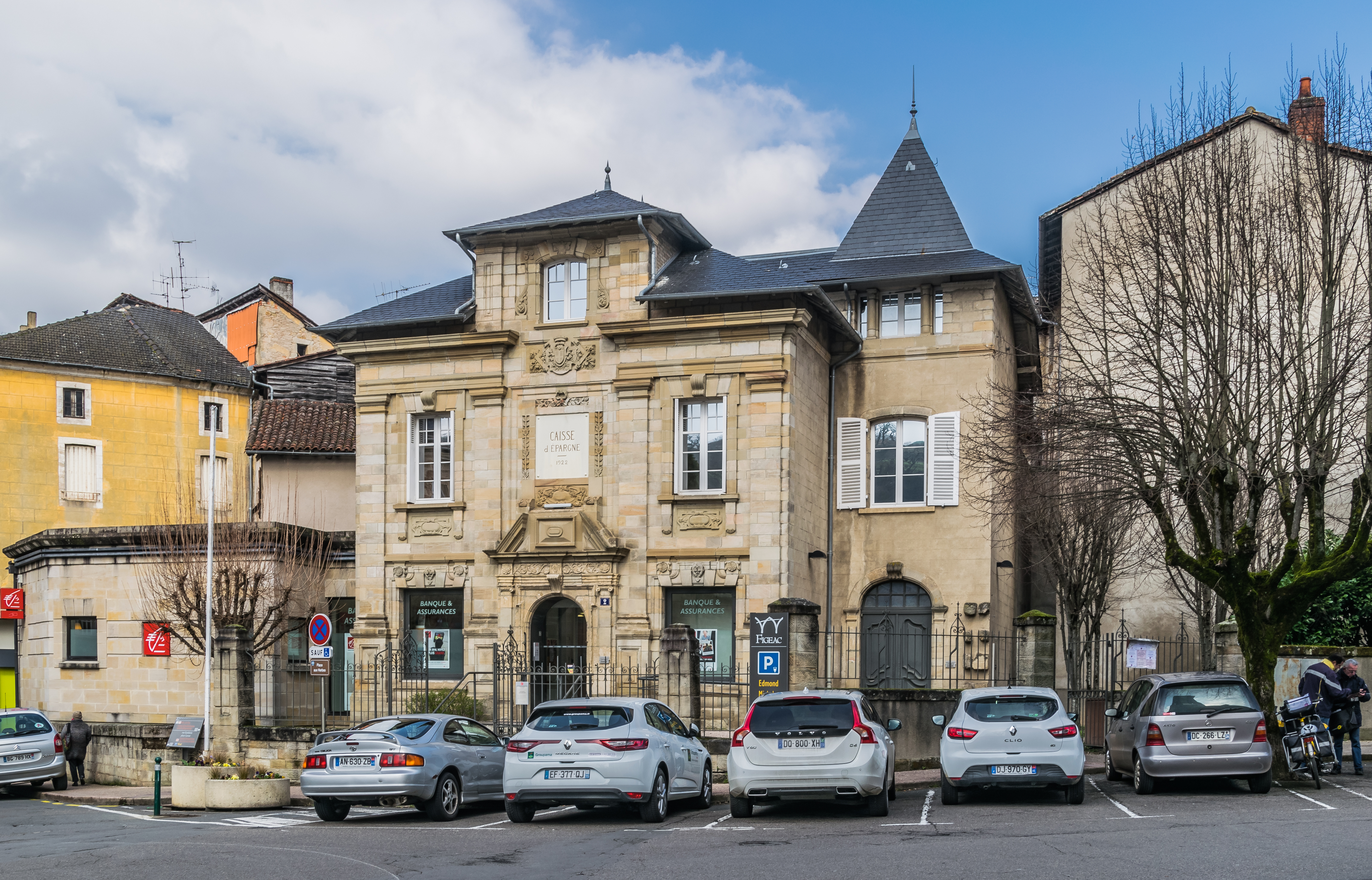 Building at 2 Place aux Herbes in Figeac, Lot, France